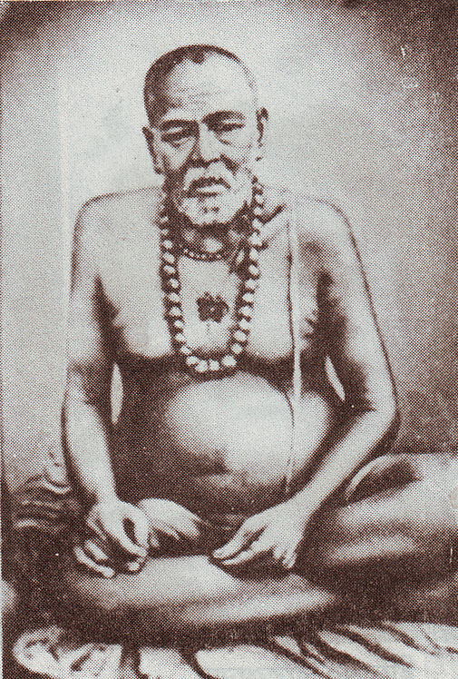 The person depicted in the photograph is Bama Khepa (1837-1911), a great saint of India and a worshipper of Tara (a form of Goddess Kali in Hinduism).He was a contemporary of Sri Ramakrishna Paramhamsa and he became a famed Tantric (one practicing the Tantra doctrine of Hinduism) of Tarapith cremation ground of Birbhum district, West Bengal, India.He was born at Atla, a village near Tarapith, West Bengal. Originally named Bama (Bamacharan according to some), he became one of the greatest Tantrics of his time. This was possible due to the spiritual guidance of Kailaspati, his Guru at Tarapith.He entered into Mahasamadhi (died or final liberation) in 1911. More information about the saint can be obtained from the following book: 1) “Bharater Sadhak – Sadhika (Volume 1). This book is written by Subodh Chakravorty.It is published in India by Kamini Publication. Address: 115, Akhil Mistry Lane, Kolkata – 700 009 India. 2) Kali: the Black Goddess of Dakshineswar, Nicolas-Hays, York Beach, 1993, pp. 274-281.